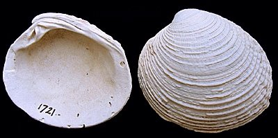 Venus verrucosa; Fossil marine bivalved shell from the North Sea.